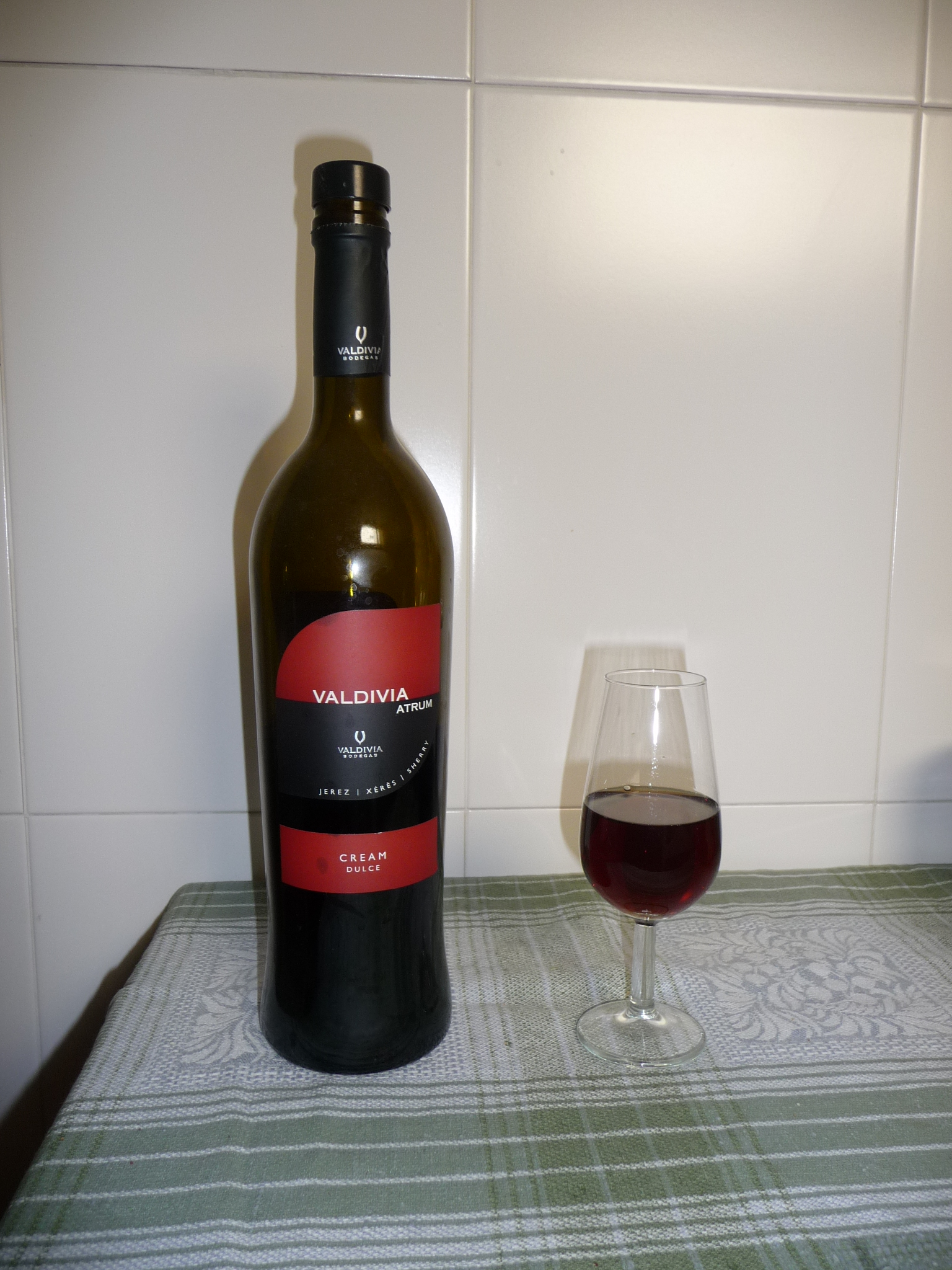 Cream Sherry wine by Bodegas Valdivia, Jerez (Andalusia, Spain)